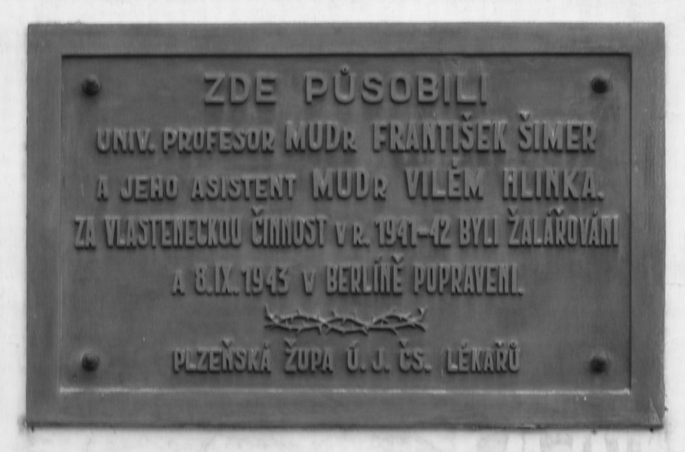 A memorial plaque dedicated to a pair of doctors: university professor MUDr. František Šimer (* 1899 - † 1943) and his assistant MUDr. Vilém Hlinka († 1943). Both doctors worked during World War II in Urban hospital (in town Pilsen) and were participants of anti-Nazi resistance in the Protectorate of Bohemia and Moravia. A commemorative plaque is located in Pilsen not far from the Edvard Beneš street on the wall of the pavilion of Professor Dr. František Šimer (in the University Hospital Pilsen-Bory).